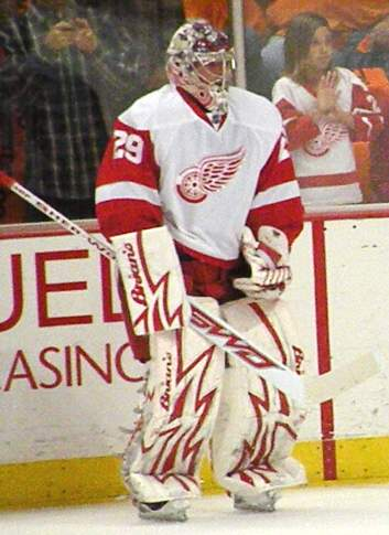 Ty Conklin on the ice during warm ups